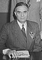 Assistant Secretary of the Navy Ralph Austin Bard in 1942.